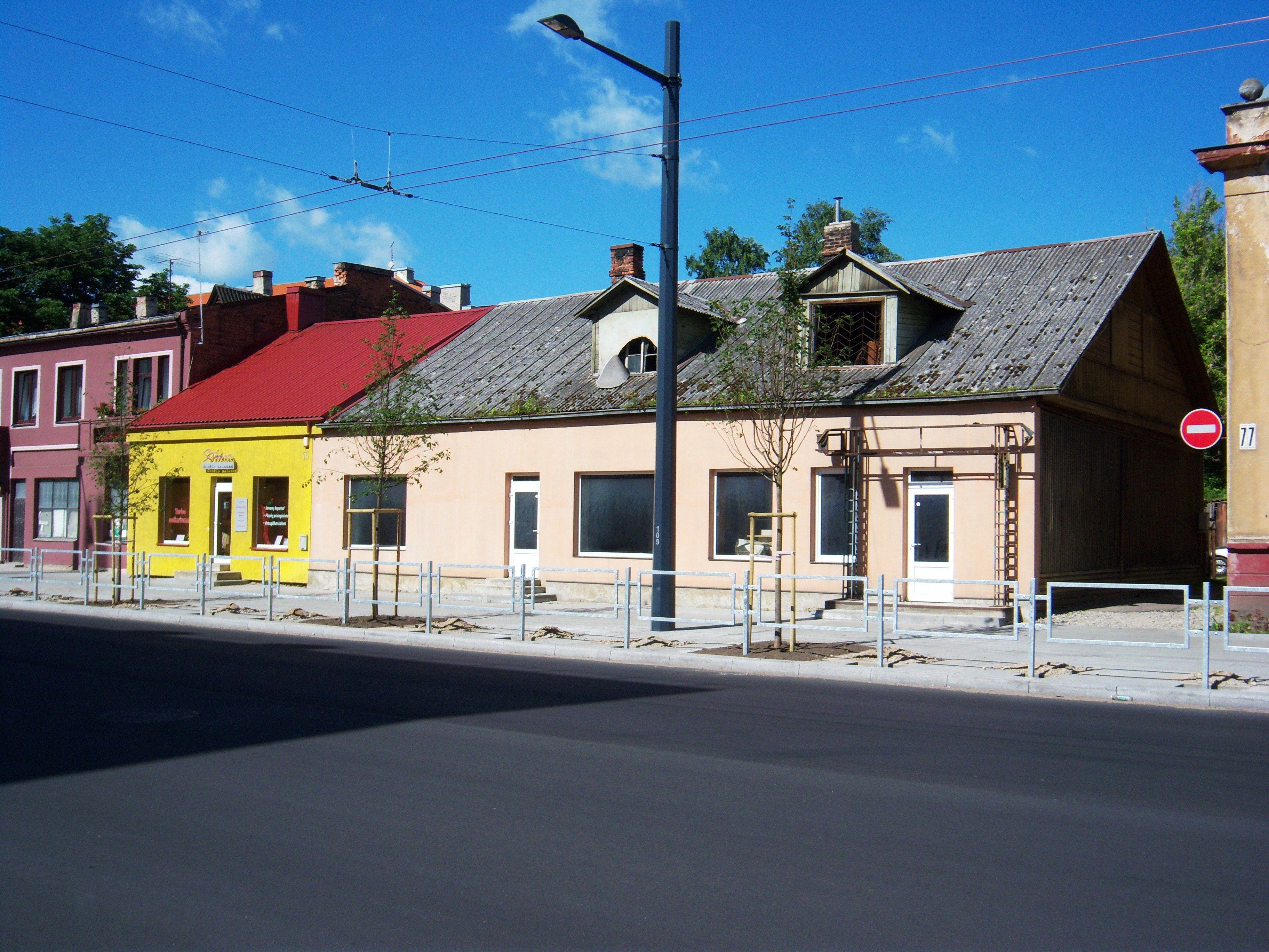 Žemieji Šančiai, Kaunas. Lithuania